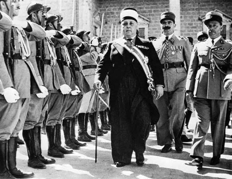 Taj aldin alhusni: 3rd prisedent of syria / President Taj al-Din al-Hasani inspecting the Guard of Honor on November 2,1941.